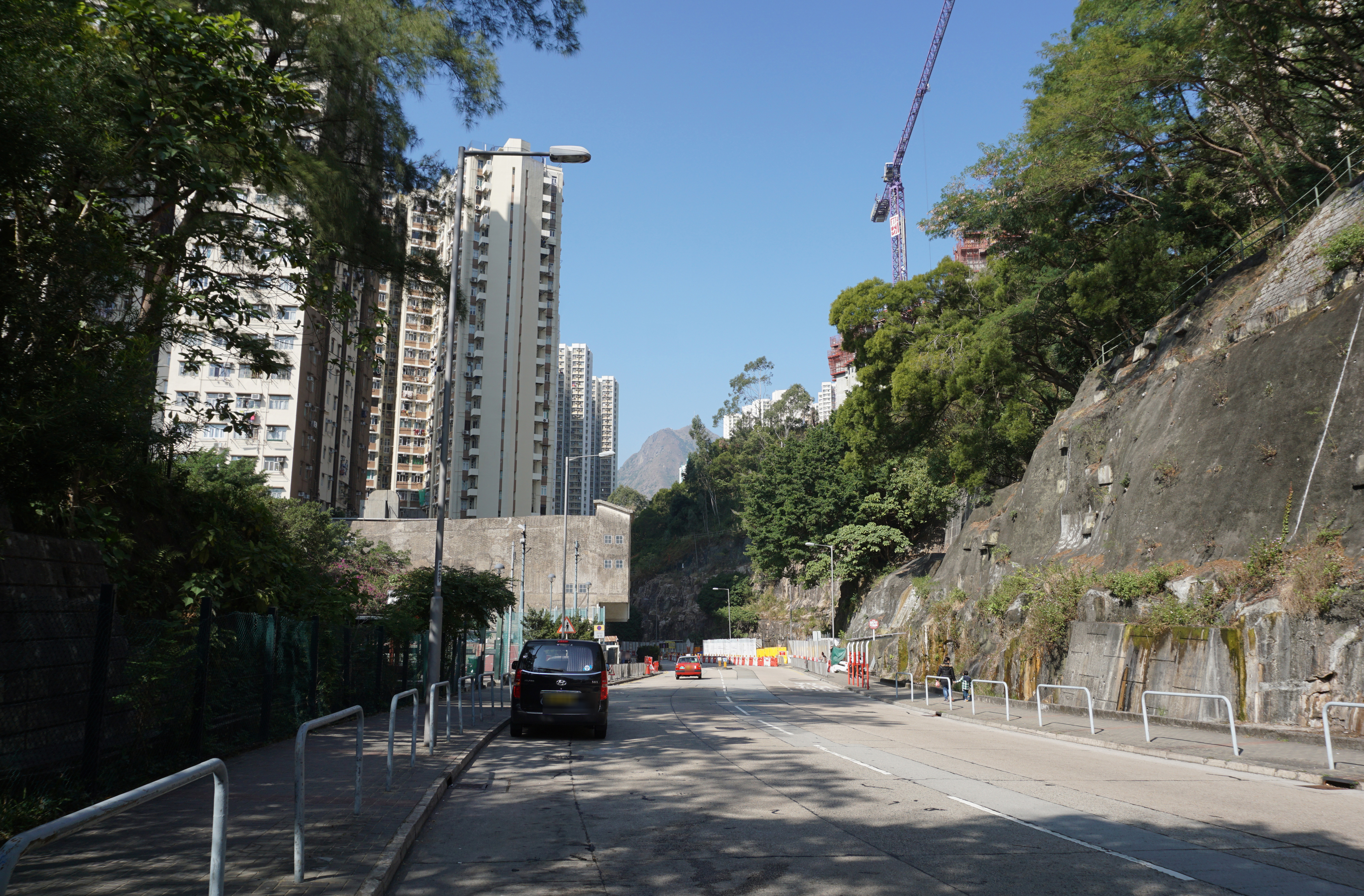 Hiu Kwong Street in Sau Mau Ping, Hong Kong.